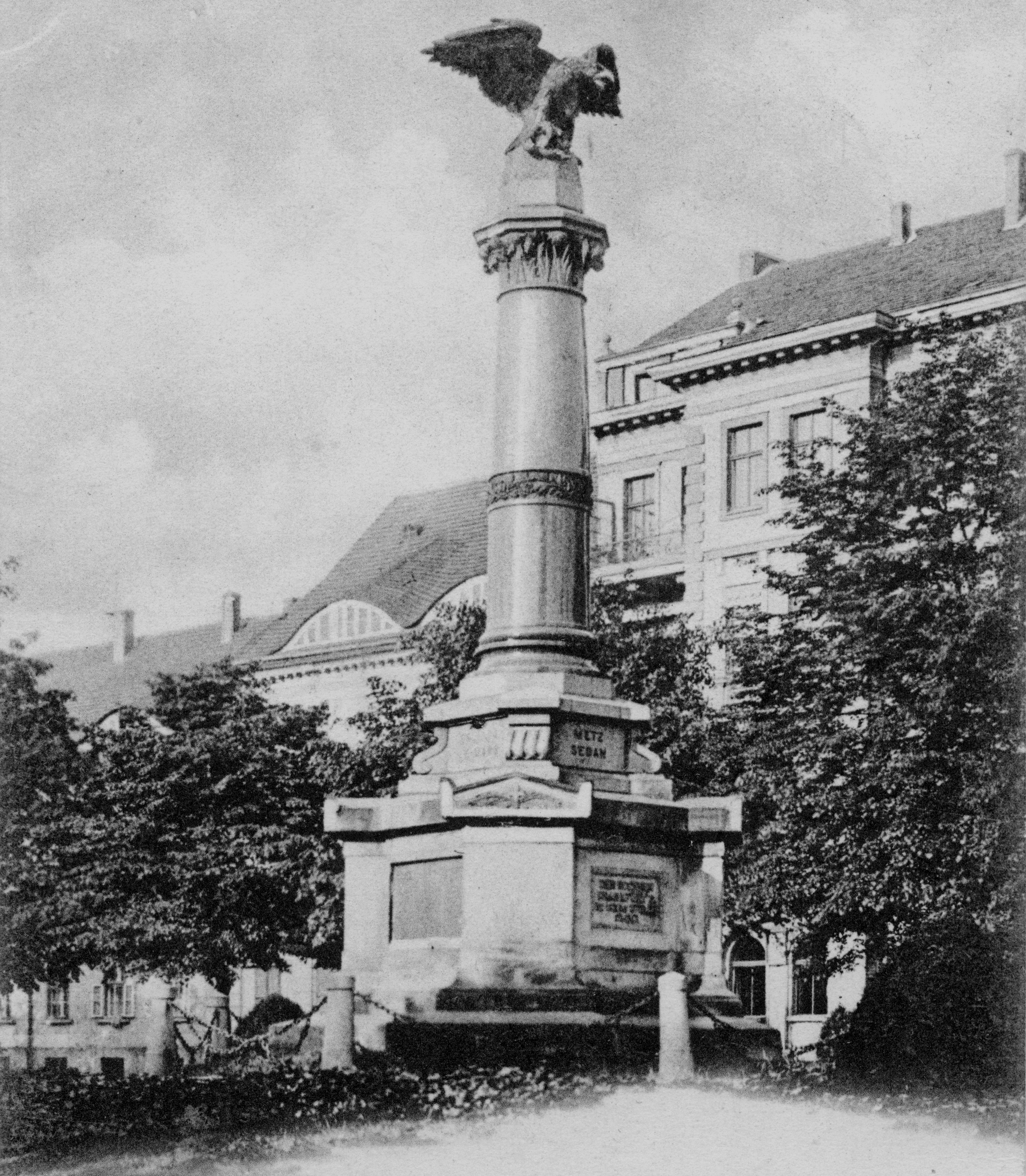 Sedan memorial before 1900 at square Kleiner Wilhelmsplatz (Zehmeplatz) in Frankfurt (Oder), Brandenburg, Germany